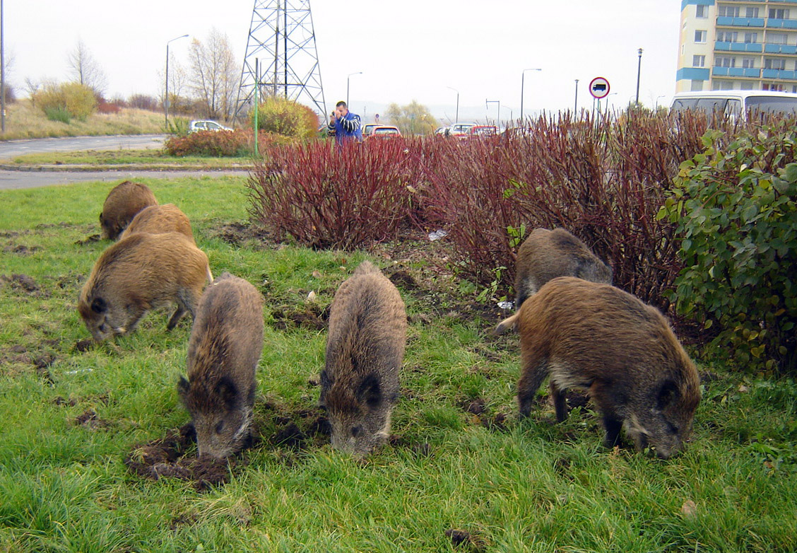 The Wild Boars (Sus scrofa) in Grudziądz, Poland